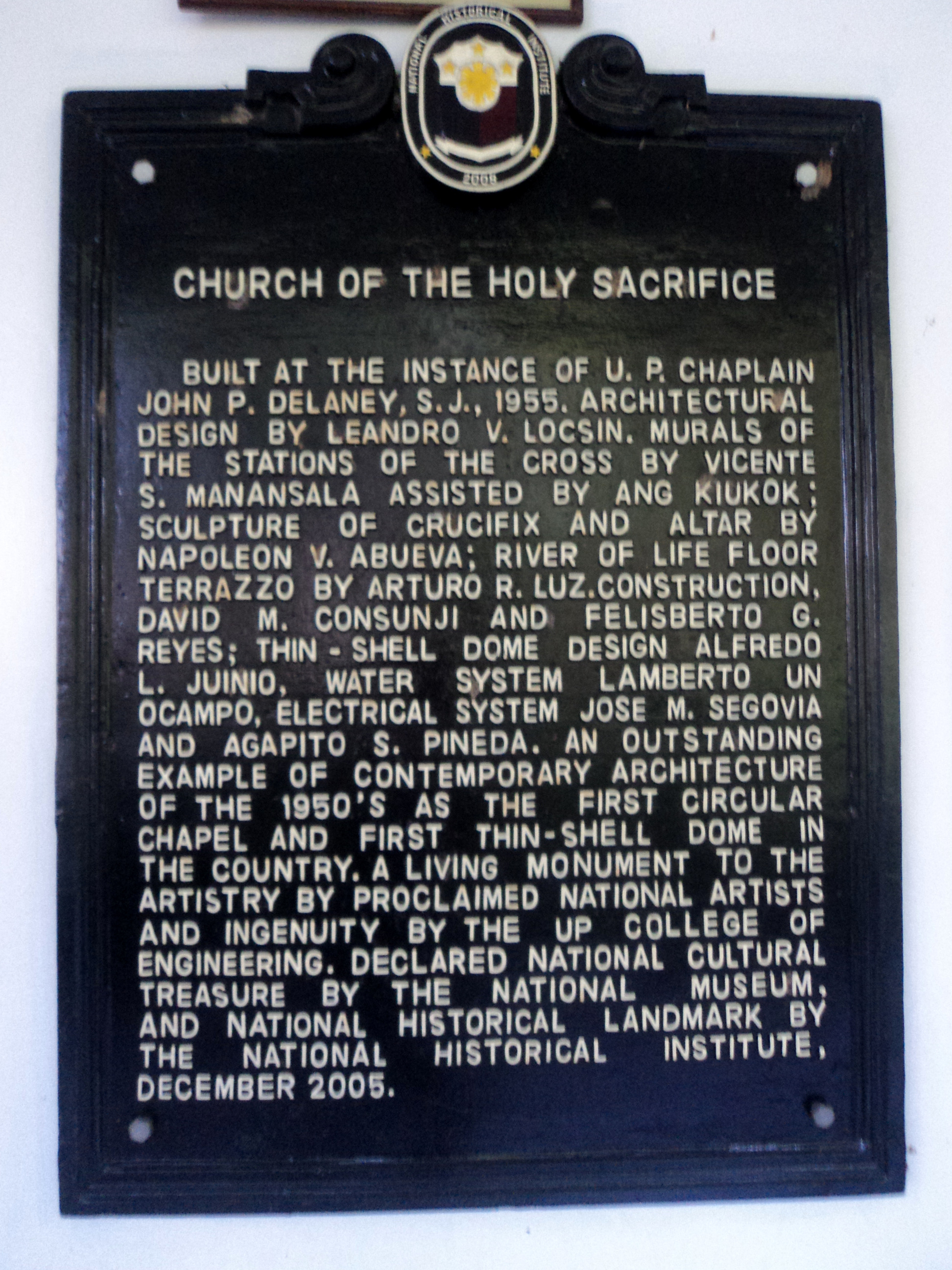 The historical marker of the Church of the Holy Sacrifice inside the University of the Philippines campus in Quezon City.